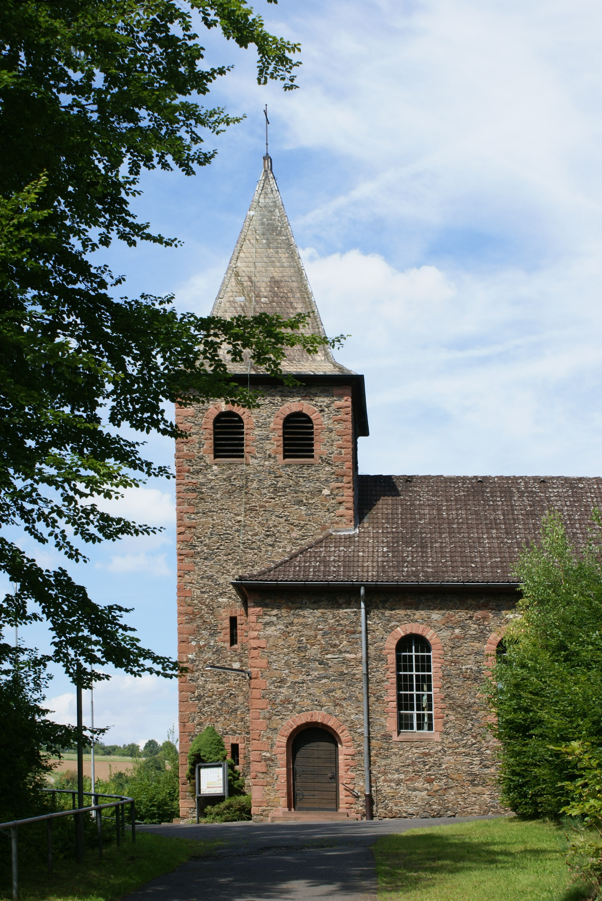 The church named Auxilium Christianorum in the village Reichenbach that is part of the community "Markt Mömbris".